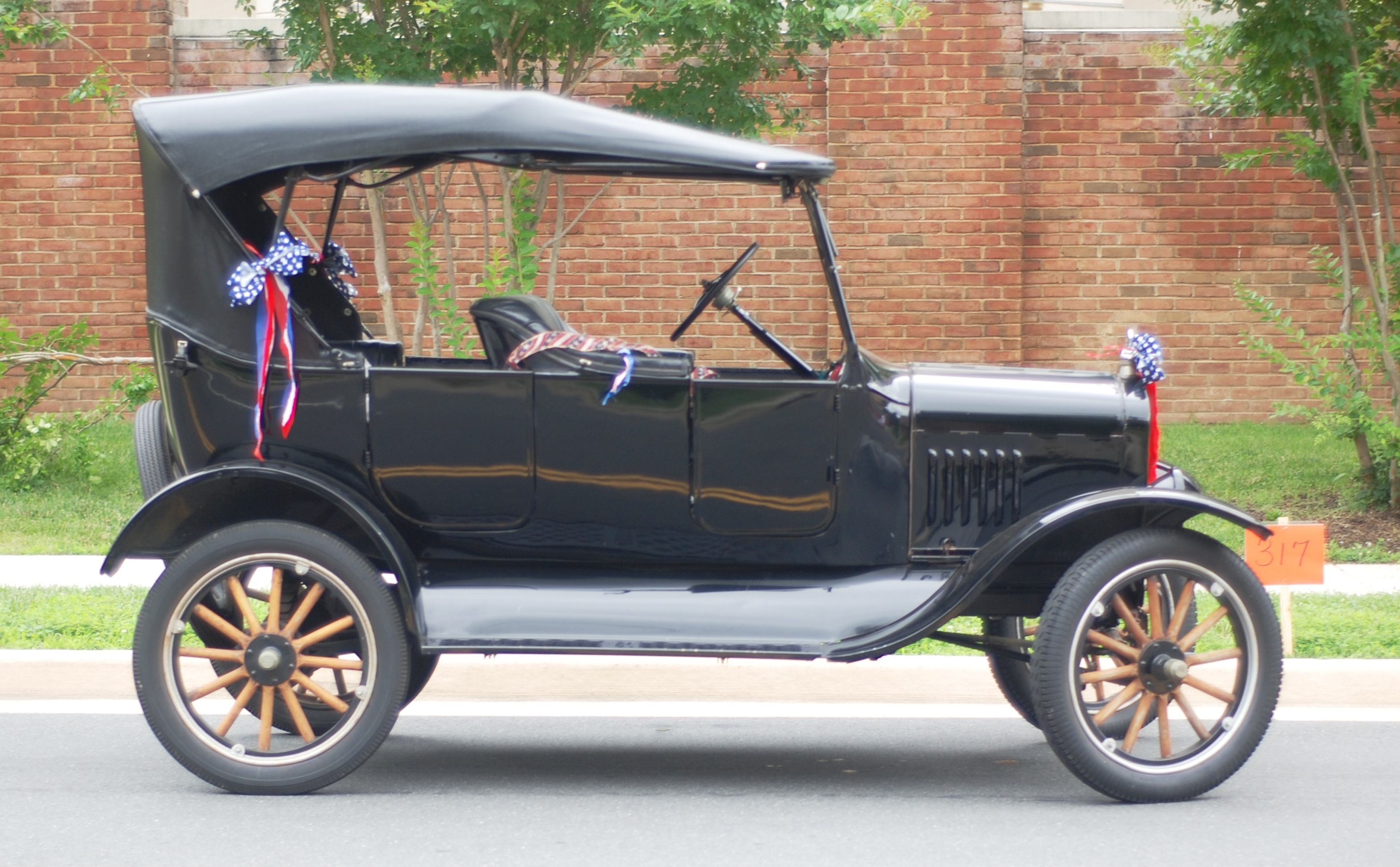 Ford Model T at Fairfax City 4th of July Parade